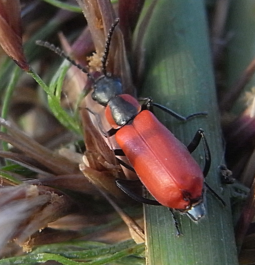 Anthocomus rufusRicoh R8